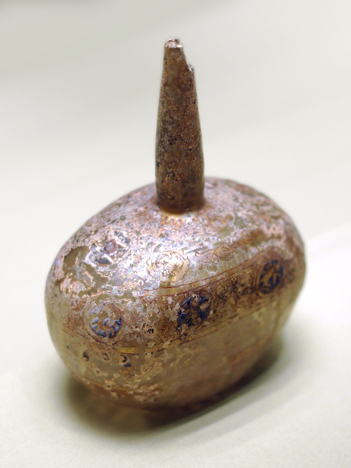 Perfume sprinkler